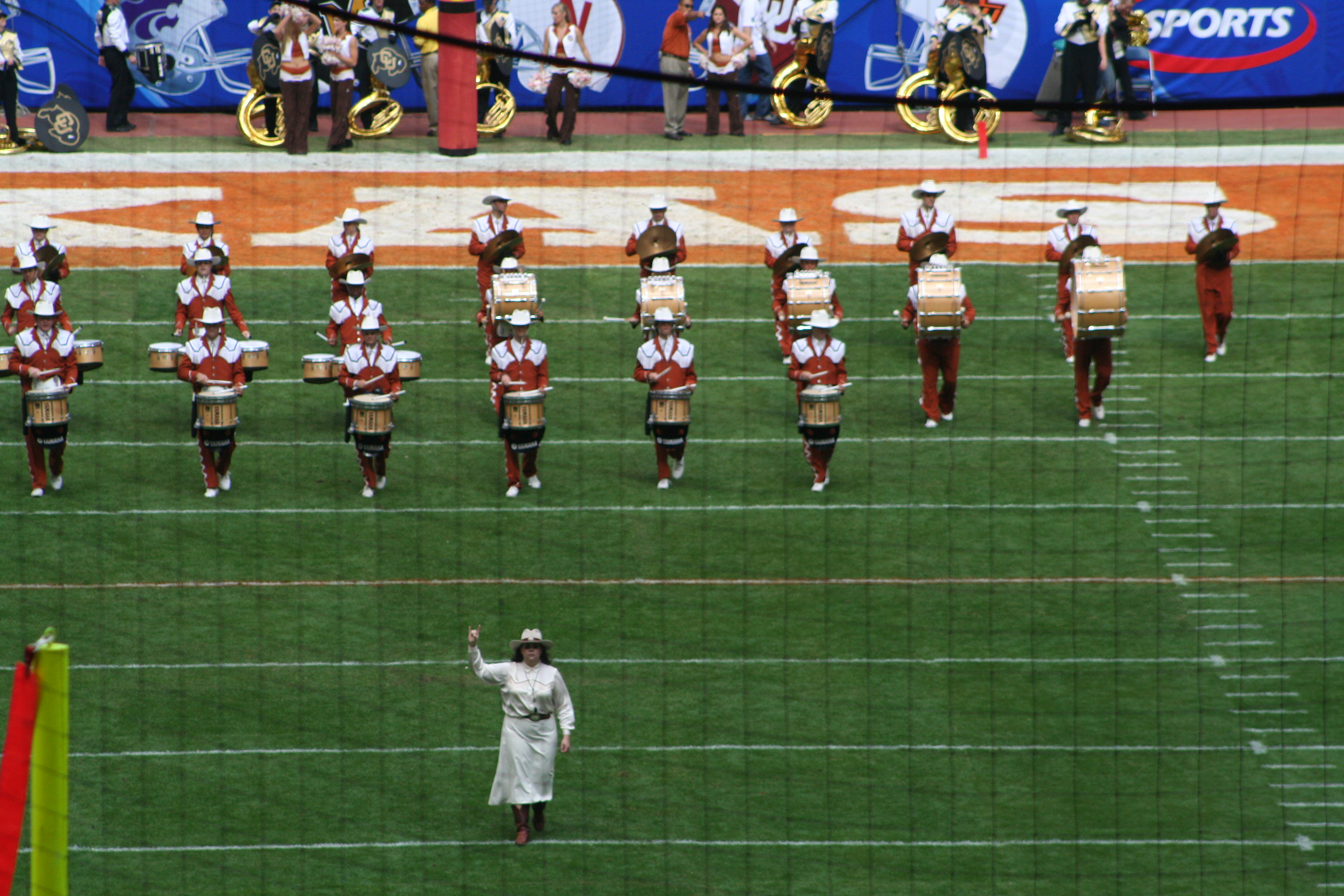 The University of Texas Longhorn Band performing on the football field of Reliant Stadium in Houston, Texas during the 2005 Big 12 Conference championship game. Photo by Johntex 2005.